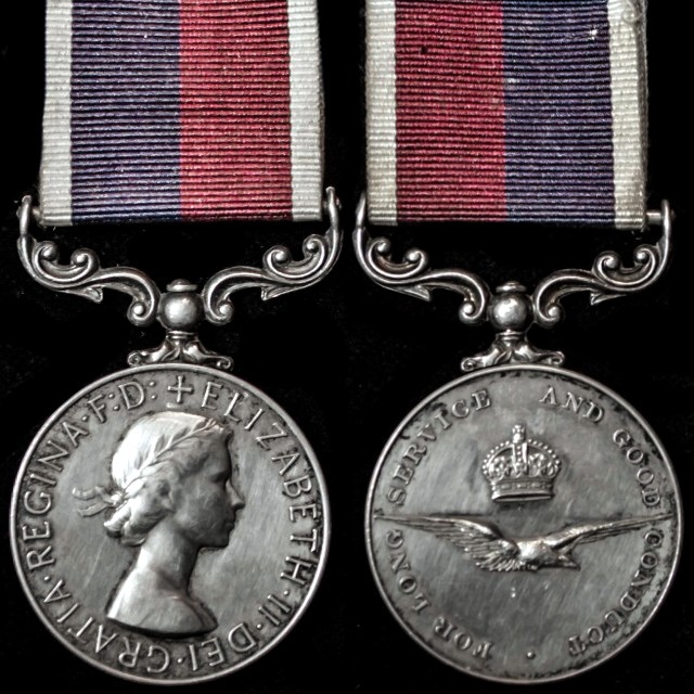 The Queen Elizabeth II version of the Royal Air Force Long Service and Good Conduct Medal